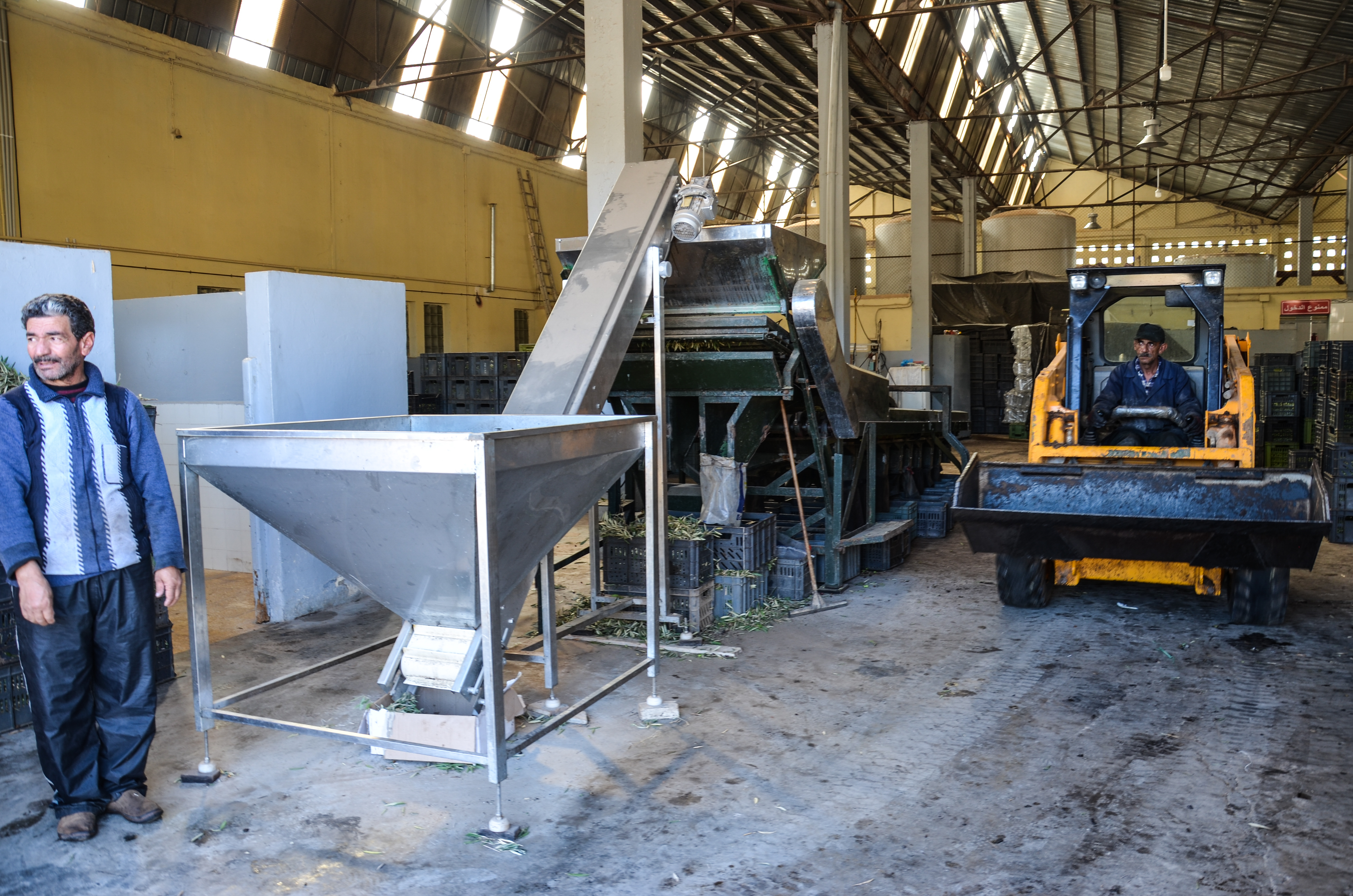 This is an image of "African people at work" from Algeria